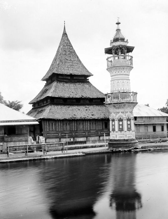 Mosque and minaret at Taluk near Fort de Kock